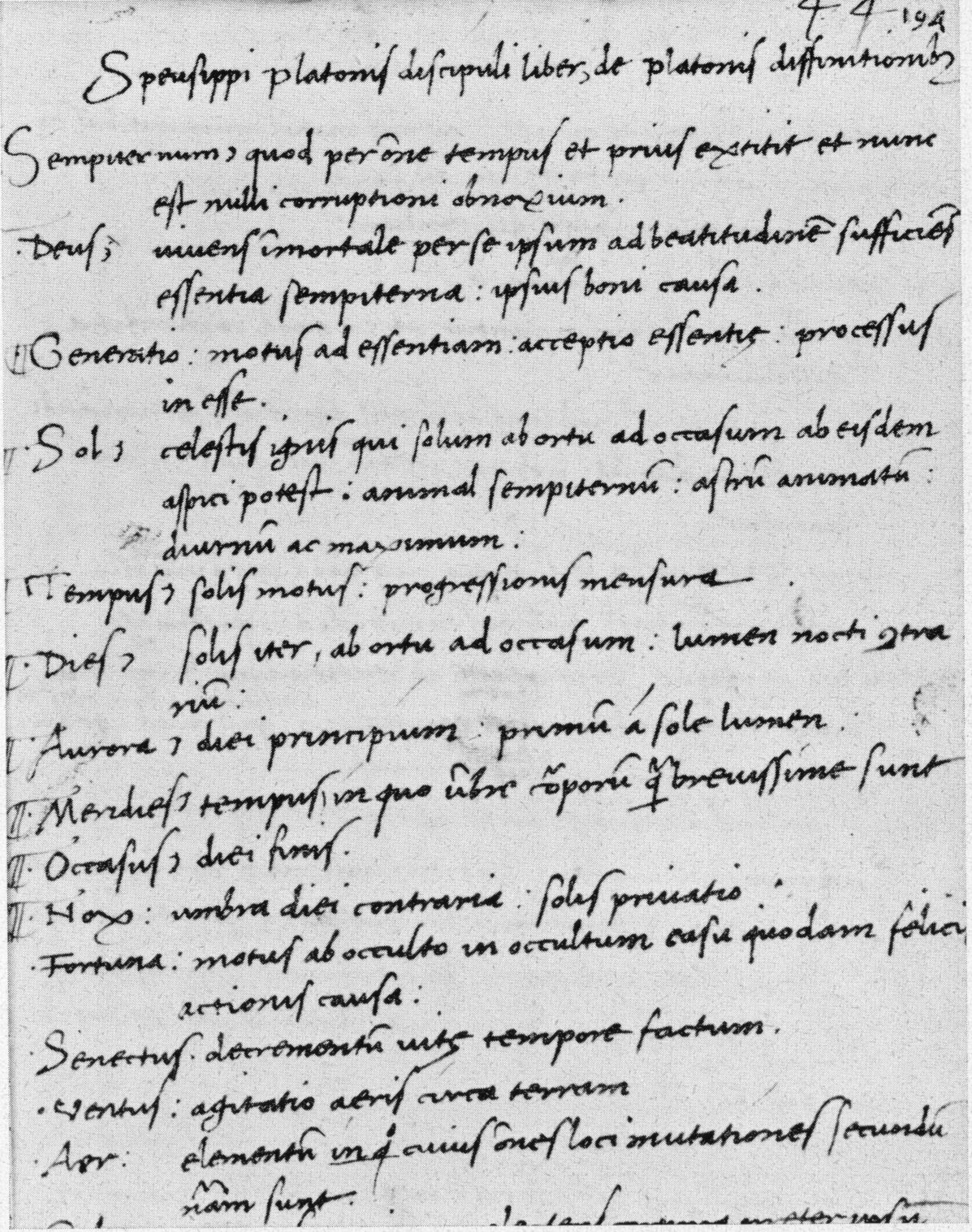 The Horoi formerly ascribed to Plato, Latin translation by Marsilio Ficino (De Platonis definitionibus); Ficino’s autograph. Paris, Bibliothèque Nationale, Suppl. gr. 212, fol. 194r.